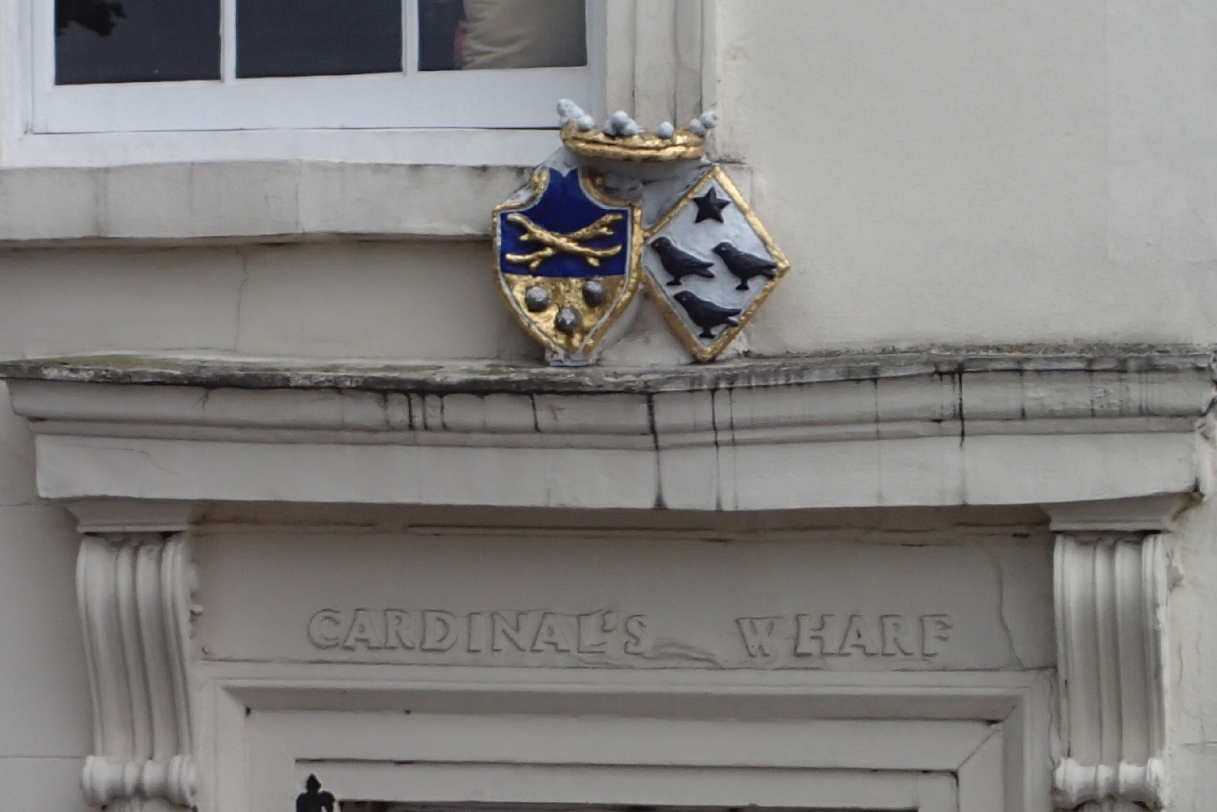 Cardinal's Wharf, Bankside, Southwark. Located between the Globe and the Tate Modern.